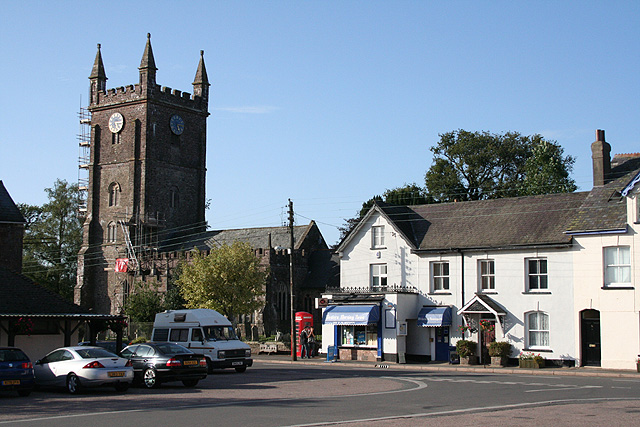 View north across The Square, Witheridge, Devon. On the parish church of St John the Baptist, centre left, there is scaffolding for restoration work. The K6 telephone kiosk next to the village shop is a Grade II listed building.